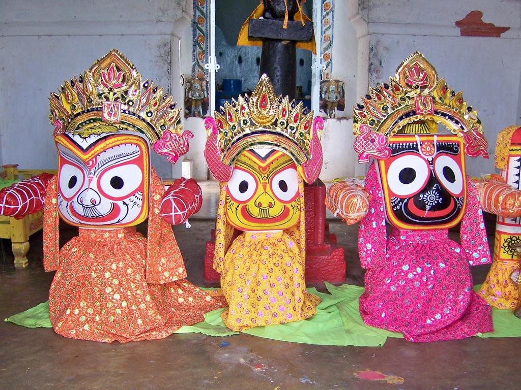 Lord Jagannath, Orissa